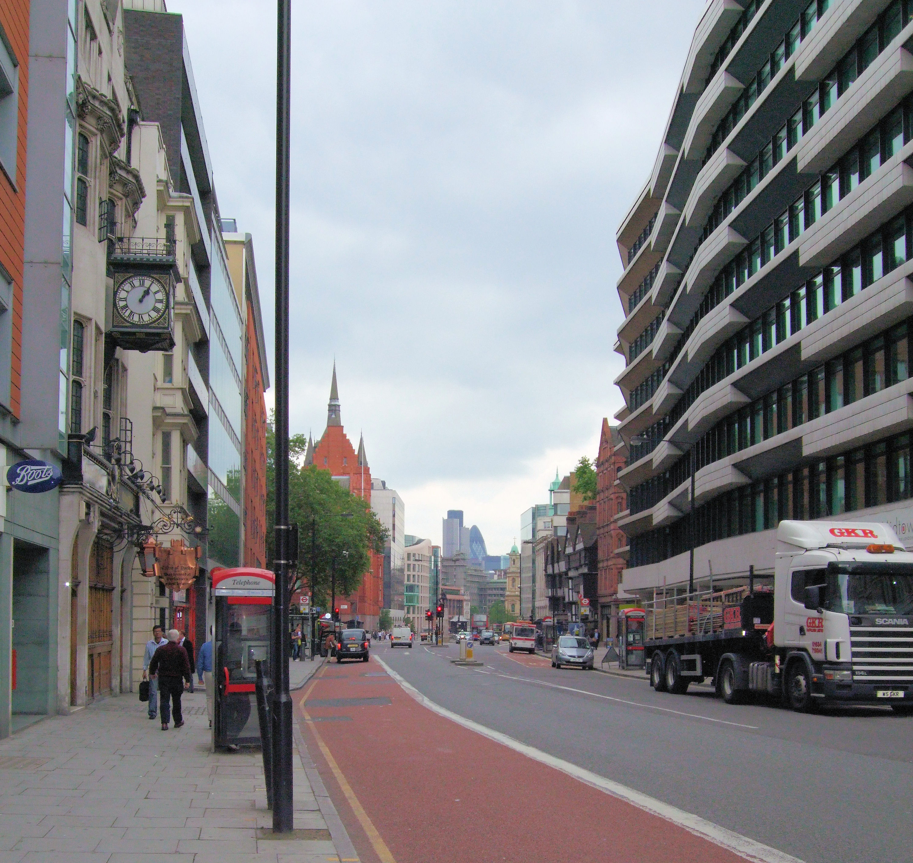 High Holborn is a road in Holborn in central London, England. It starts in the west near St Giles' Circus, then goes east, past Bloomsbury Street, the Kingsway and Southampton Row, and continues east. The road becomes Holborn at the junction with Gray's Inn Road.